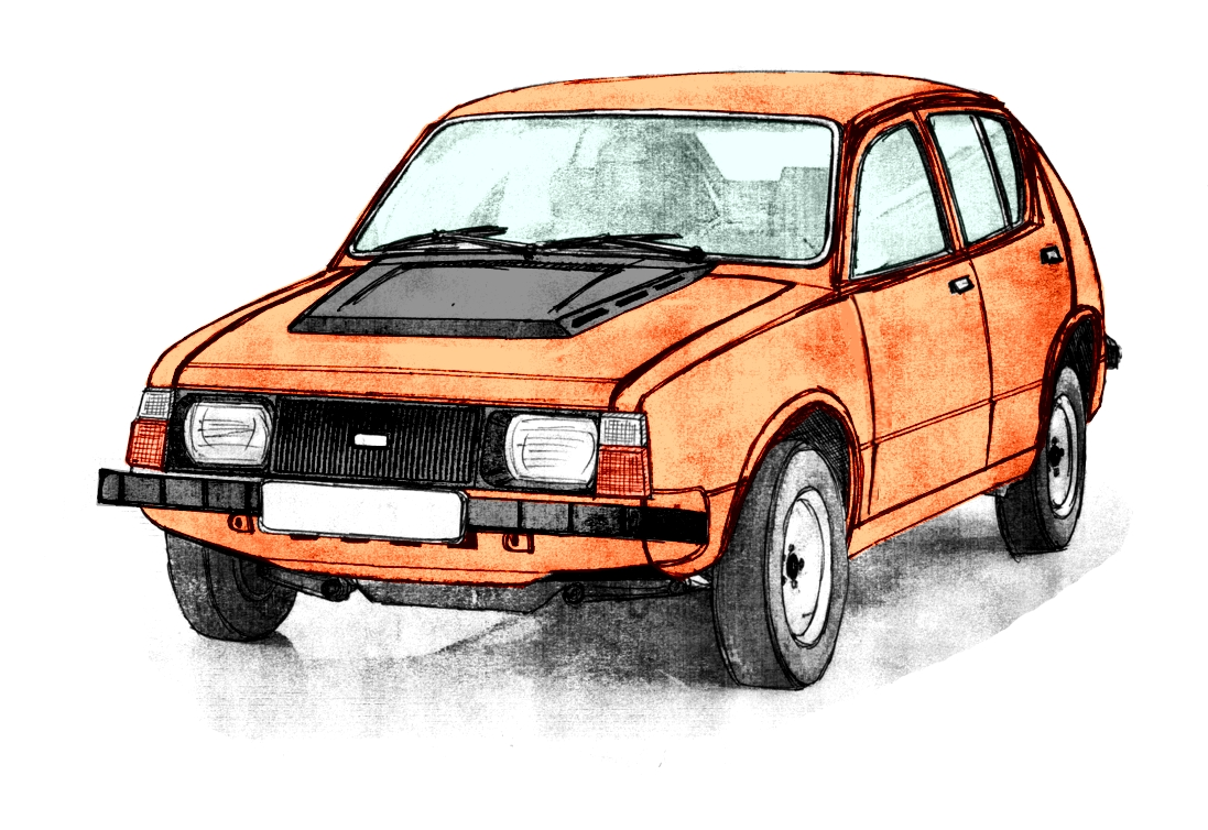 IZH-13 Start FWD prototype, 1968-72